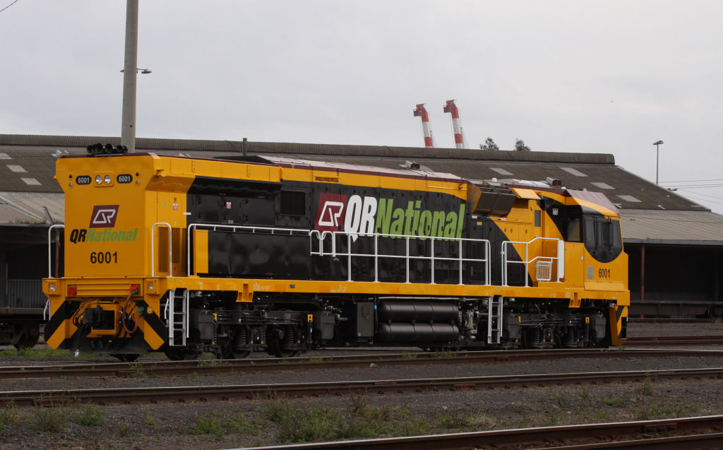 Number 2 end of QRNational 6000 class diesel locomotive 6001 (UGL Rail C44aci) at North Dynon, Melbourne